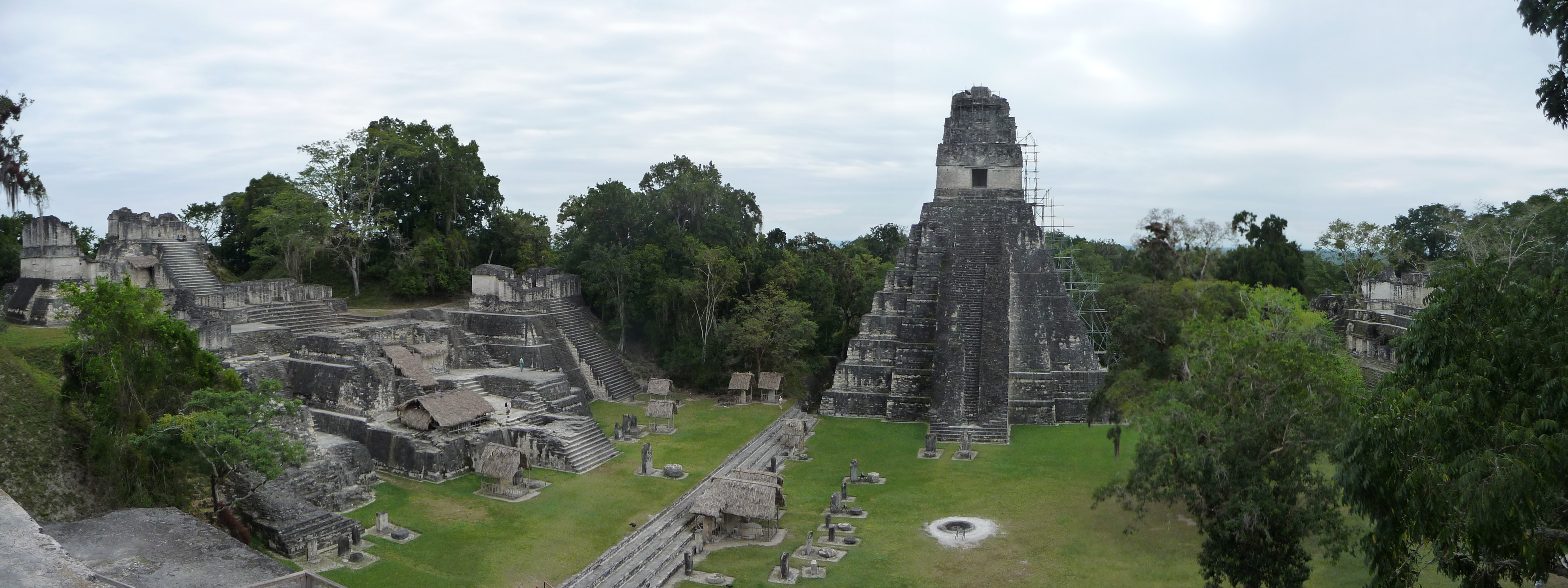 View on the Grand Plaza of Tikal from the Temple II (Petén, Guatemala).